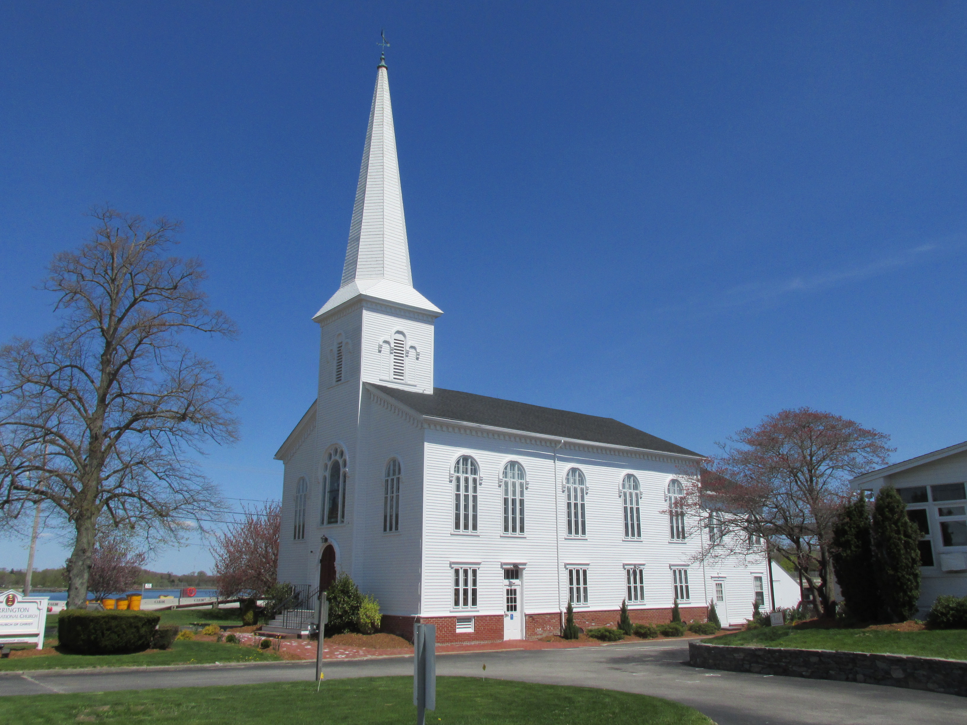 Congregational Church, Barrington Rhode Island - 2014